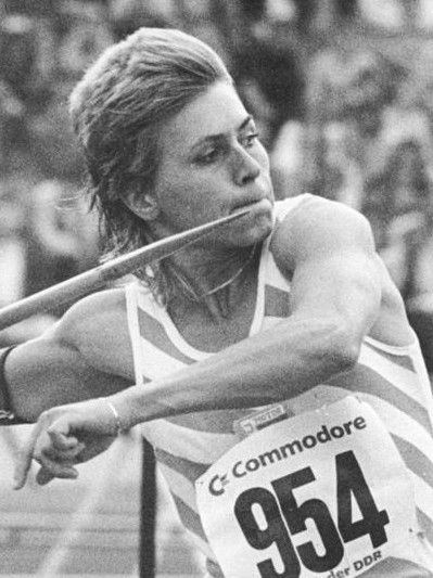 Factual corrections and alternative descriptions are encouraged separately from the original description. Additionally errors can be reported at this page to inform the Bundesarchiv. Original historic description: Petra Felke ADN-ZB Sindermann 25.6.88 Rostock: 39. DDR-Meisterschaft Leichtathletik- Mit 73,86 Metern sicherte der Weltmeisterin Petra Felke vom SC Motor Jena bei den Damen den Titelgewinn im Speerwurf.